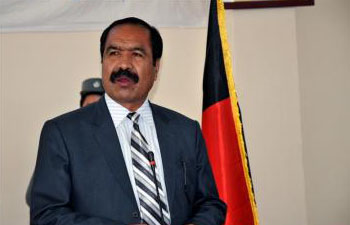 Ghulam Ali Wahdat